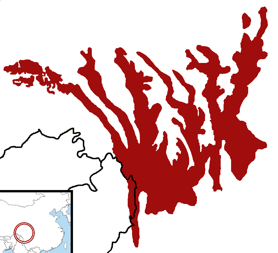 Mountains of South-West China hotspot map